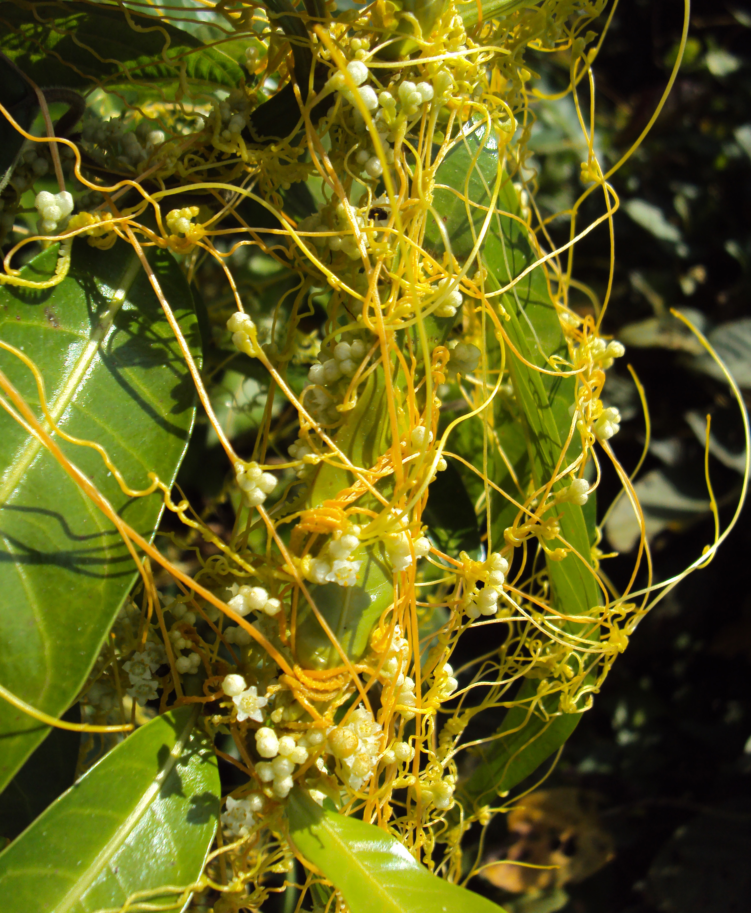 Cuscuta chinensis